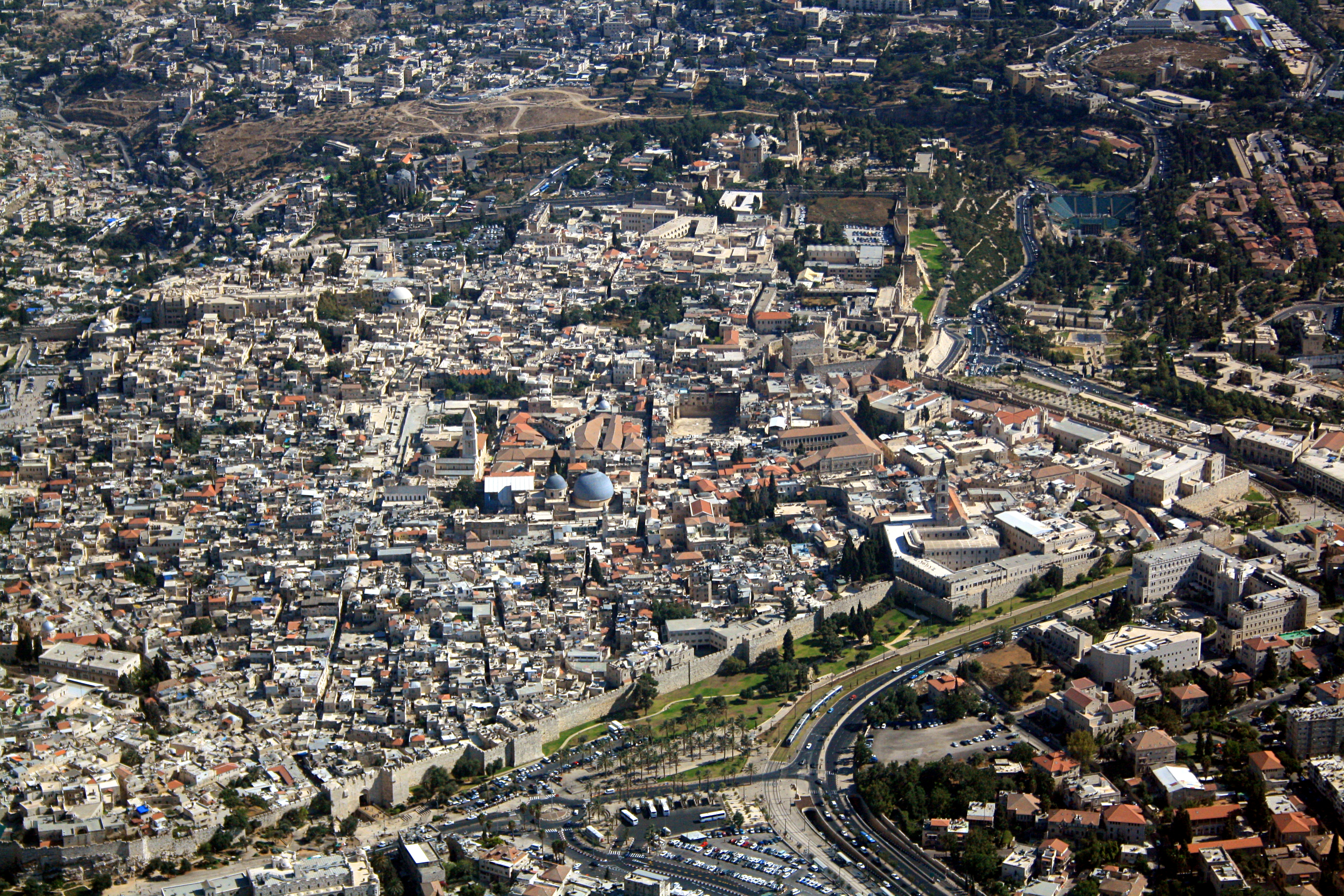 Old City of Jerusalem.